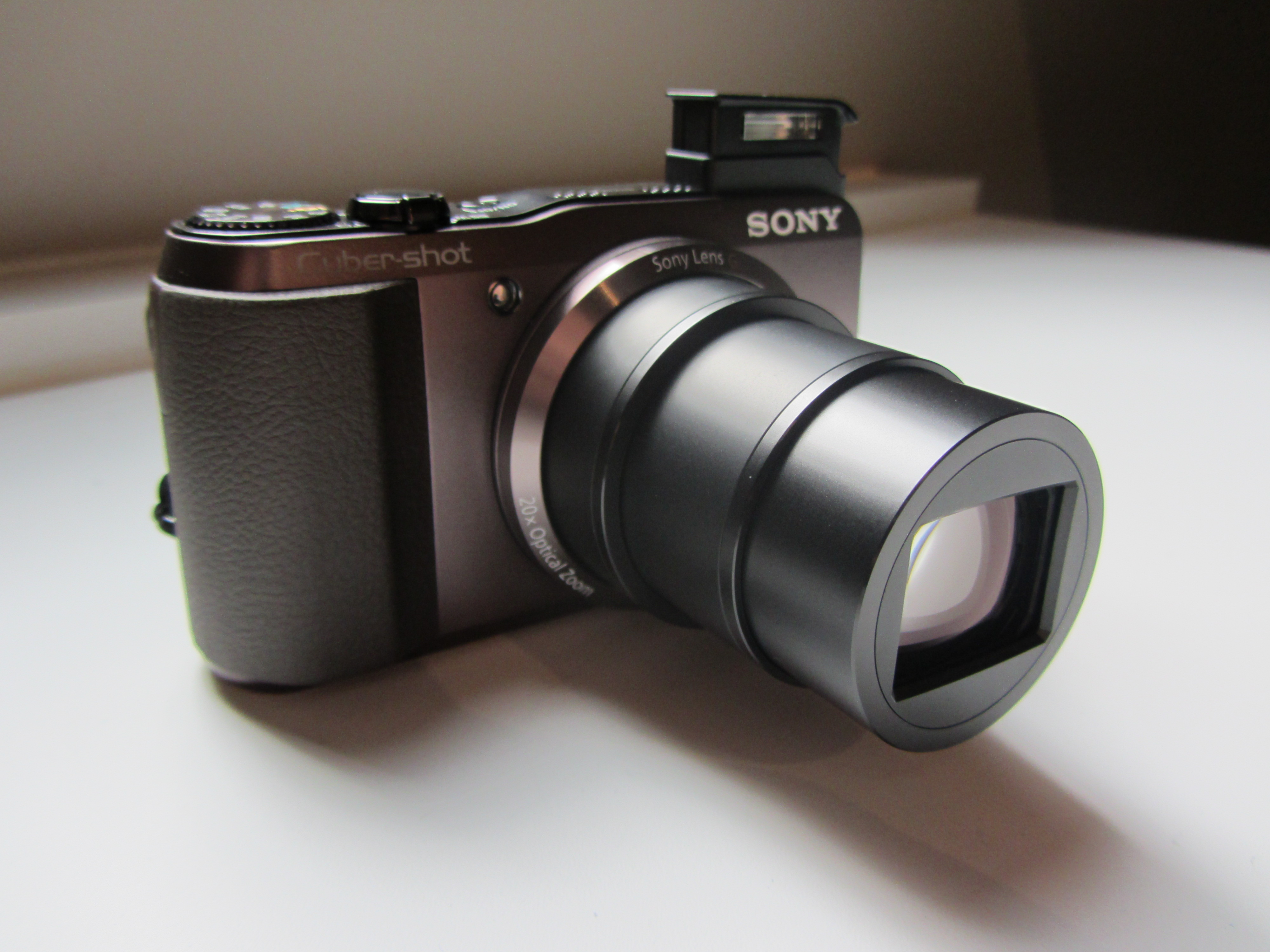 Sony DSC-HX20V (zoom & flash)